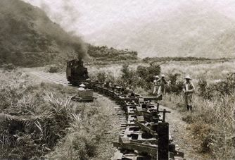 Luodong ←→ Taiping Mountain Forest Railway Luodong forest railway train ride in the landscape near the Lanyang River